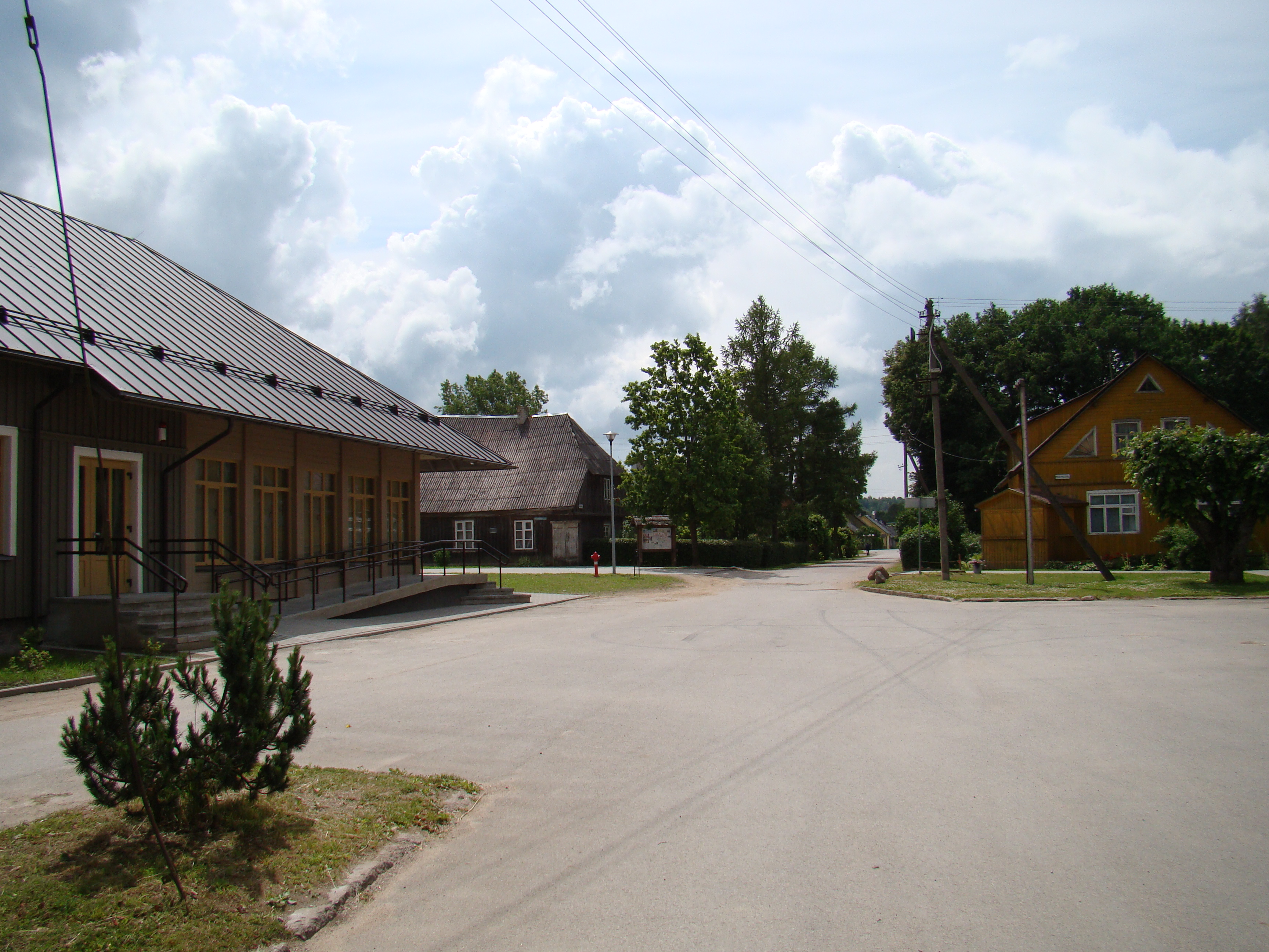 Kartena, Kretinga district, Lithuania